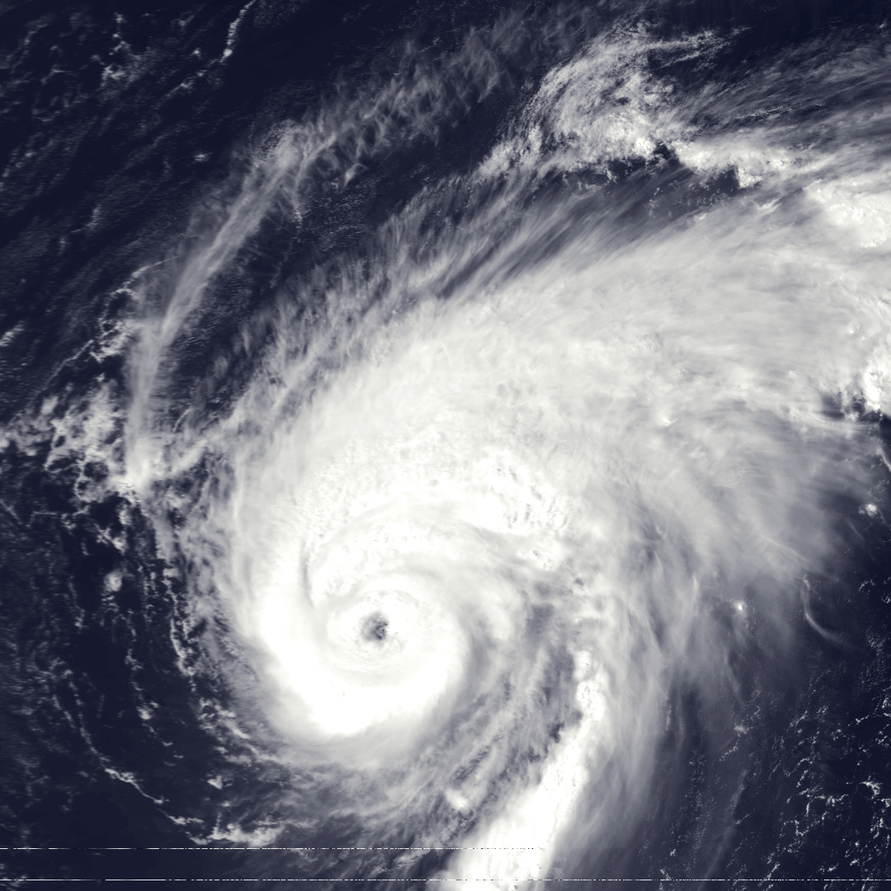 Hurricane Erika on September 9, 1997 at 17:44 UTC. At the time, Erika was a high-end Category 3 hurricane with winds of 110 kt and a central pressure of 947 mbar.